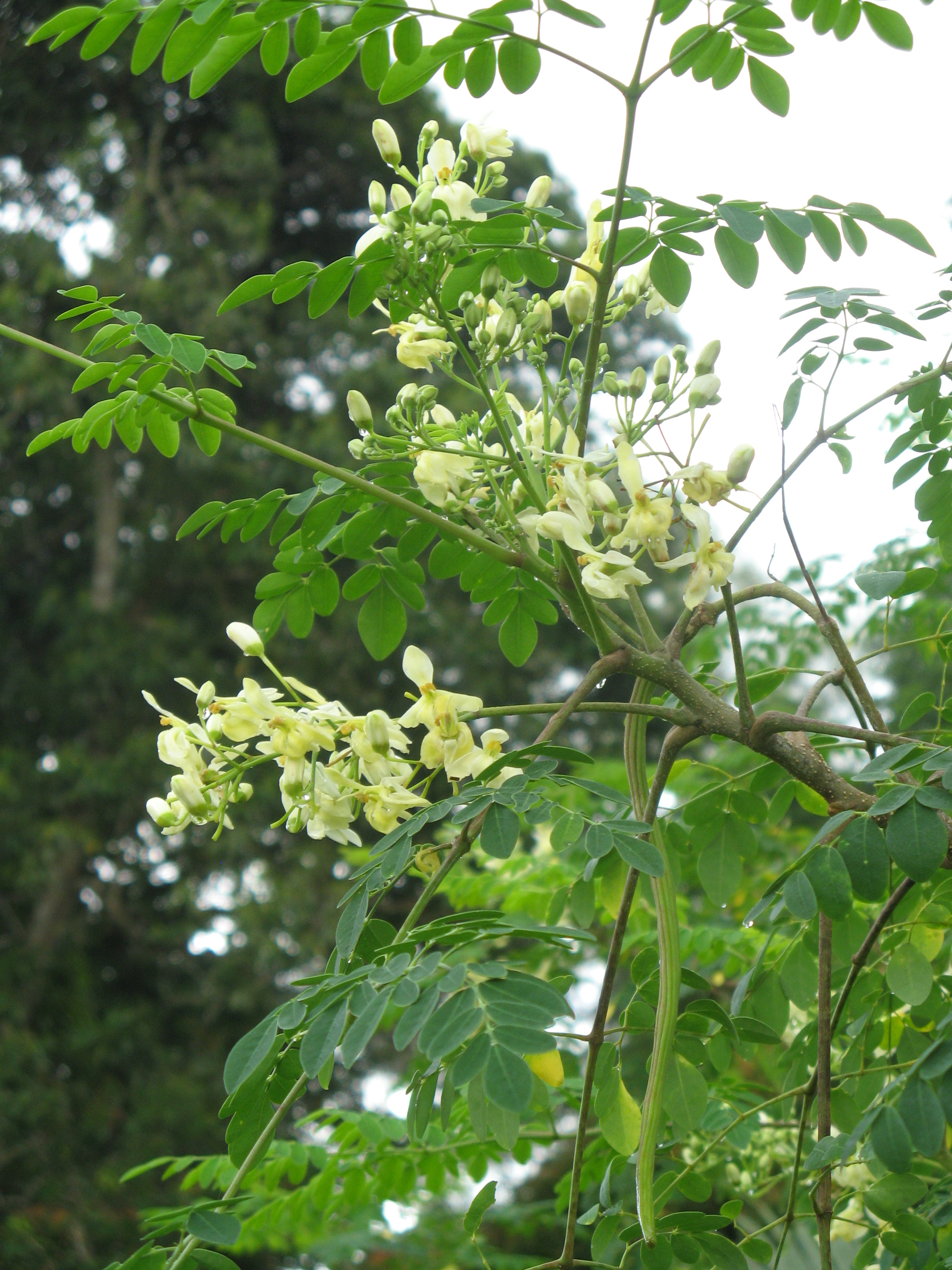 Moringa oleifera: flower and fruit. Taken at MacRichie national park, Singapore